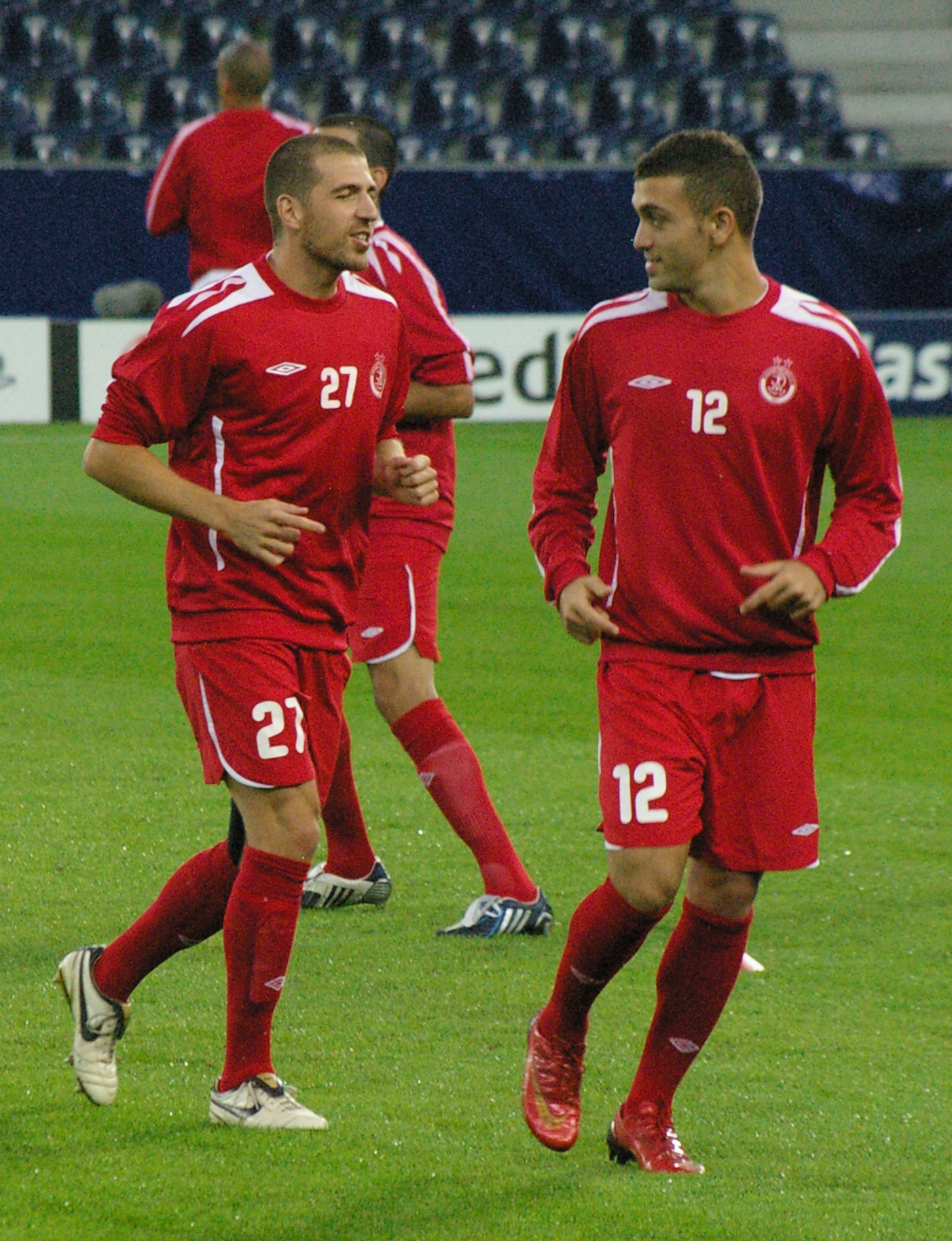 12 Victor Maree striker 27 Romain Rocchi midfielder